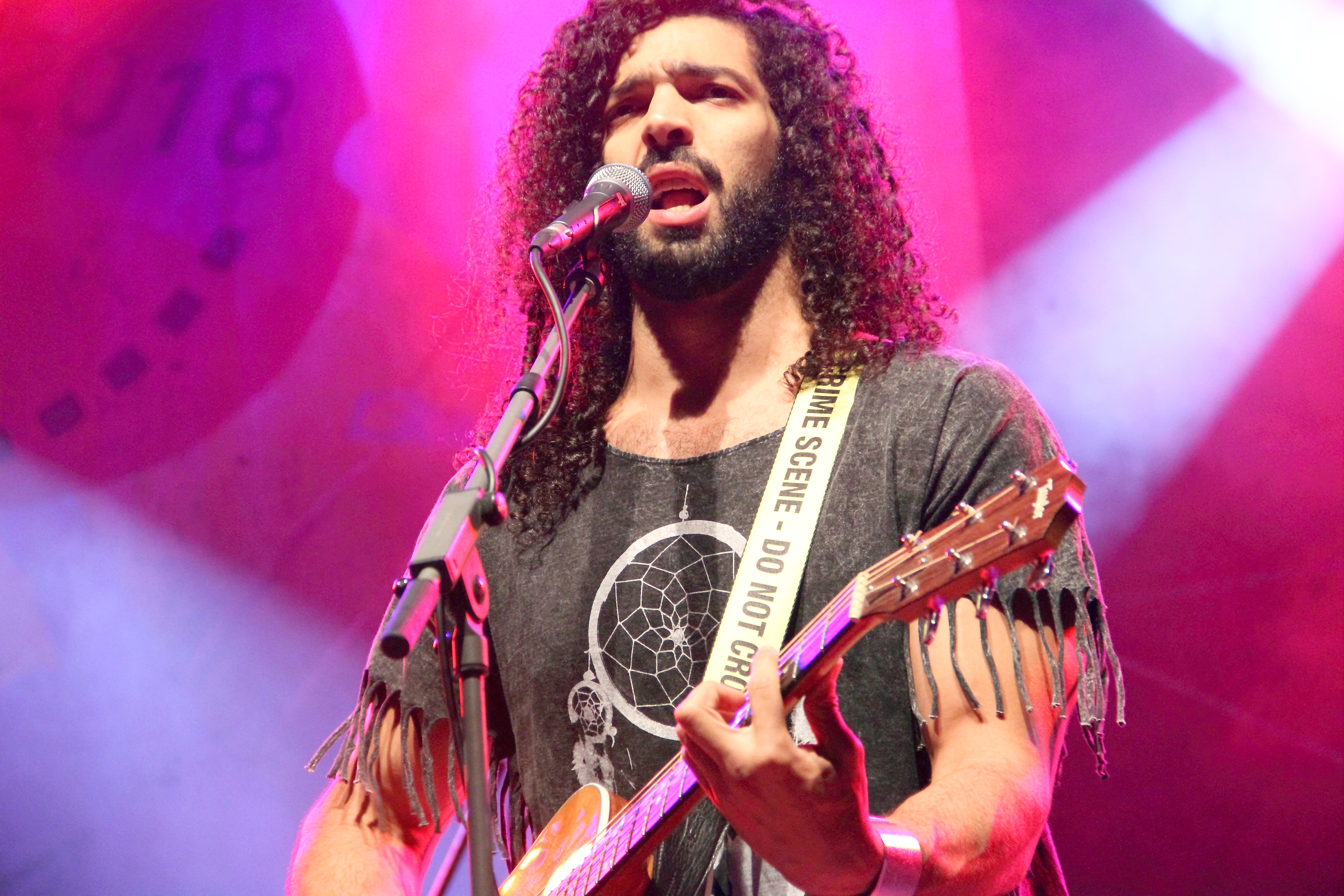 Ramy Essam & Band at Rudolstadt-Festival 2018.